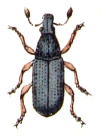 Rhyncolus ater, from Calwer's Käferbuch, Table 34, Picture 21. Taxonomy was updated to 2008, using mostly the sites Fauna Europaea and BioLib. Please contact Sarefo if the determination is wrong!